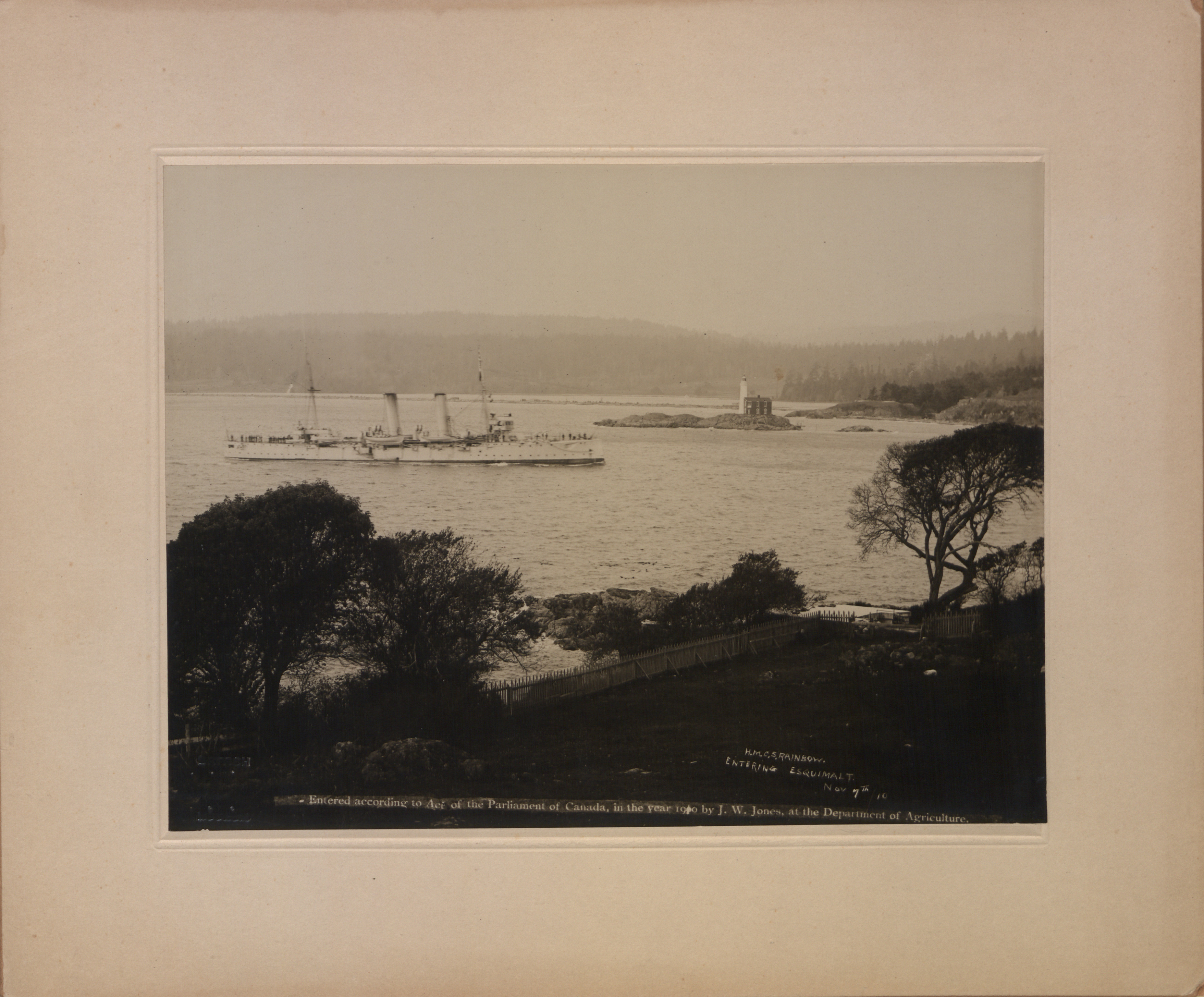 H.M.C.S. "Rainbow" entering Esquimalt, 7th November, 1910.